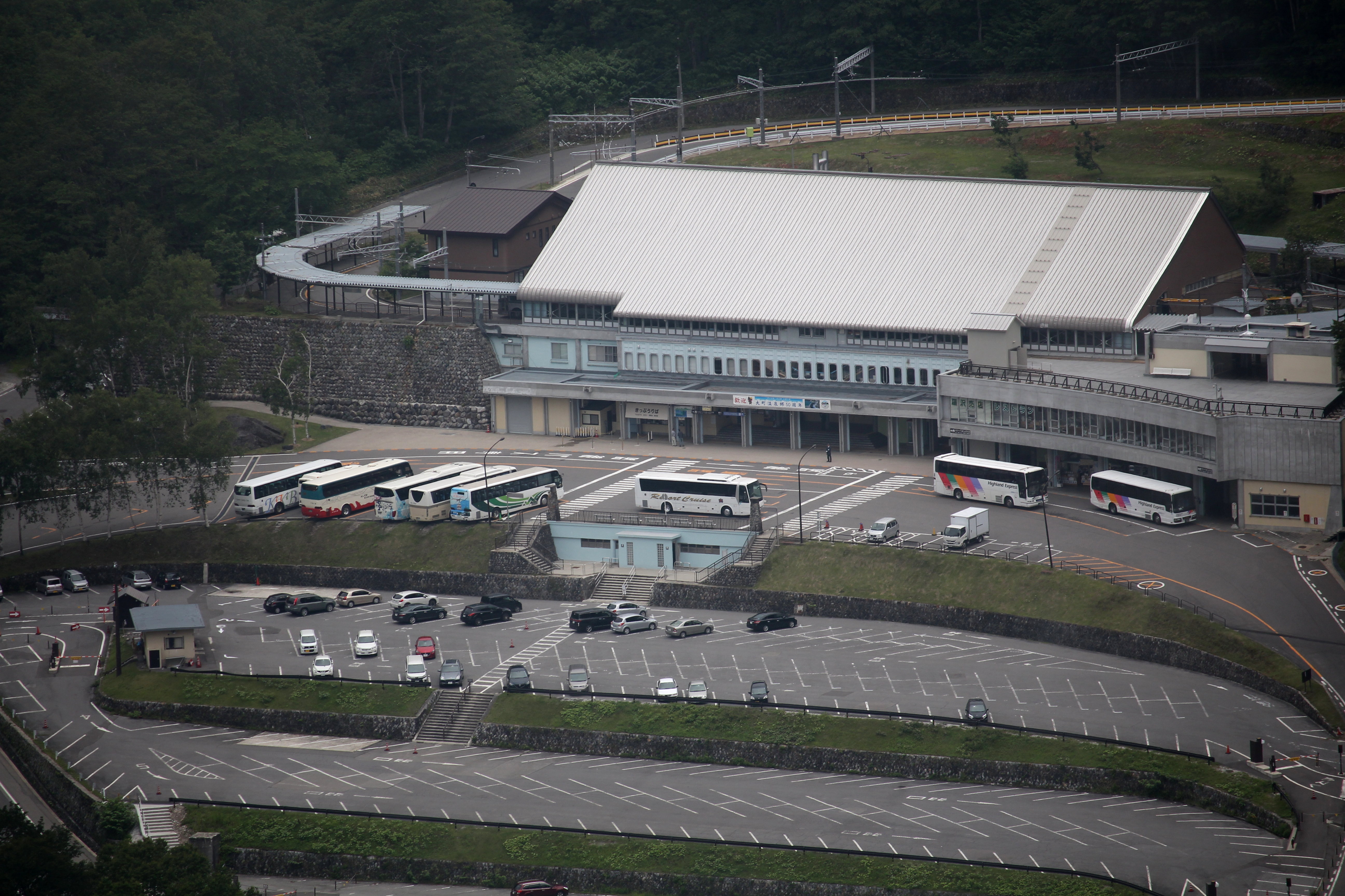 Ogizawa Station seen from Mount Jii, in Ōmachi, Nagano Prefecture, Japan